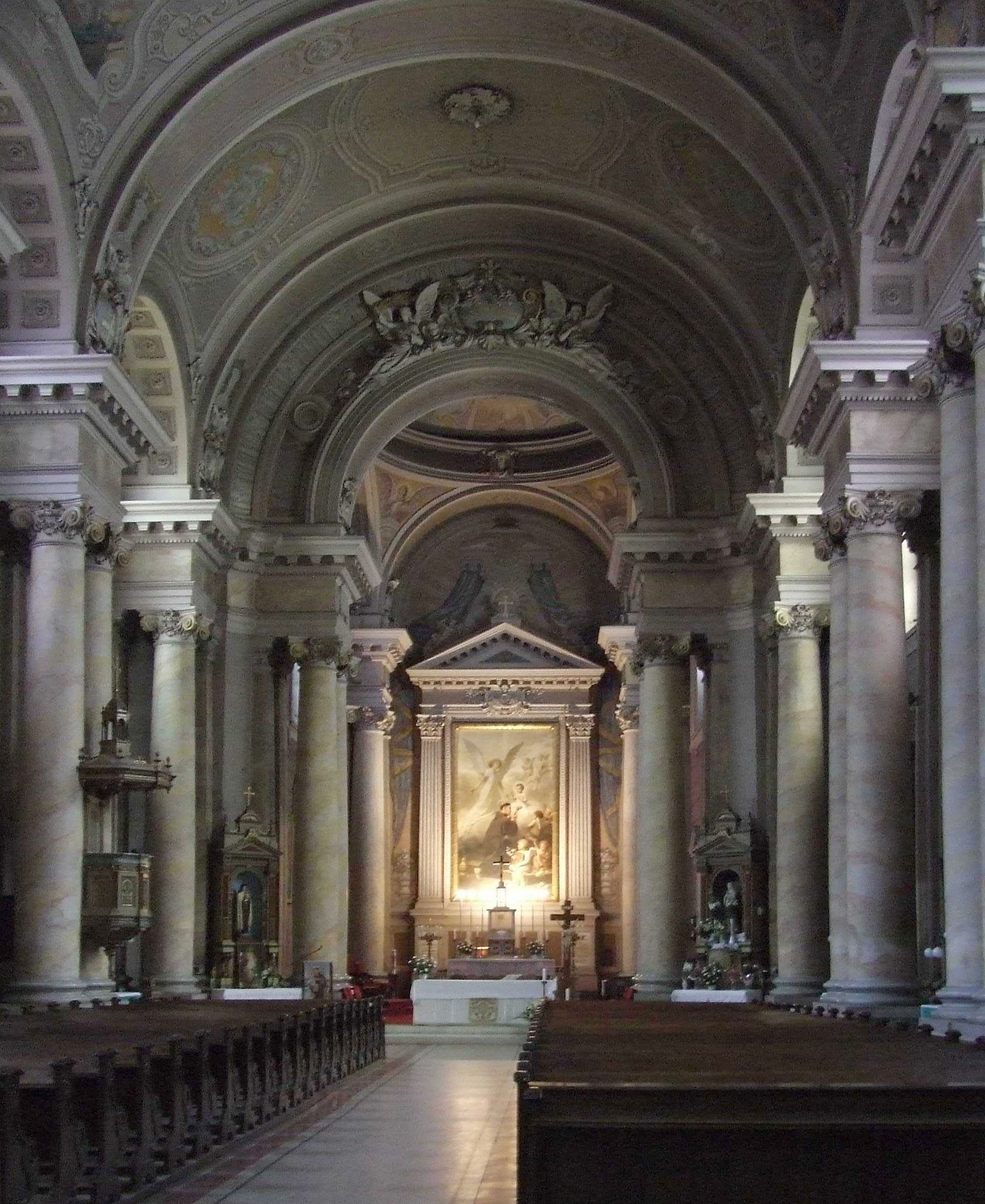 Inside view of the Catholic cathedral St Antony of Padua in Arad, Romania